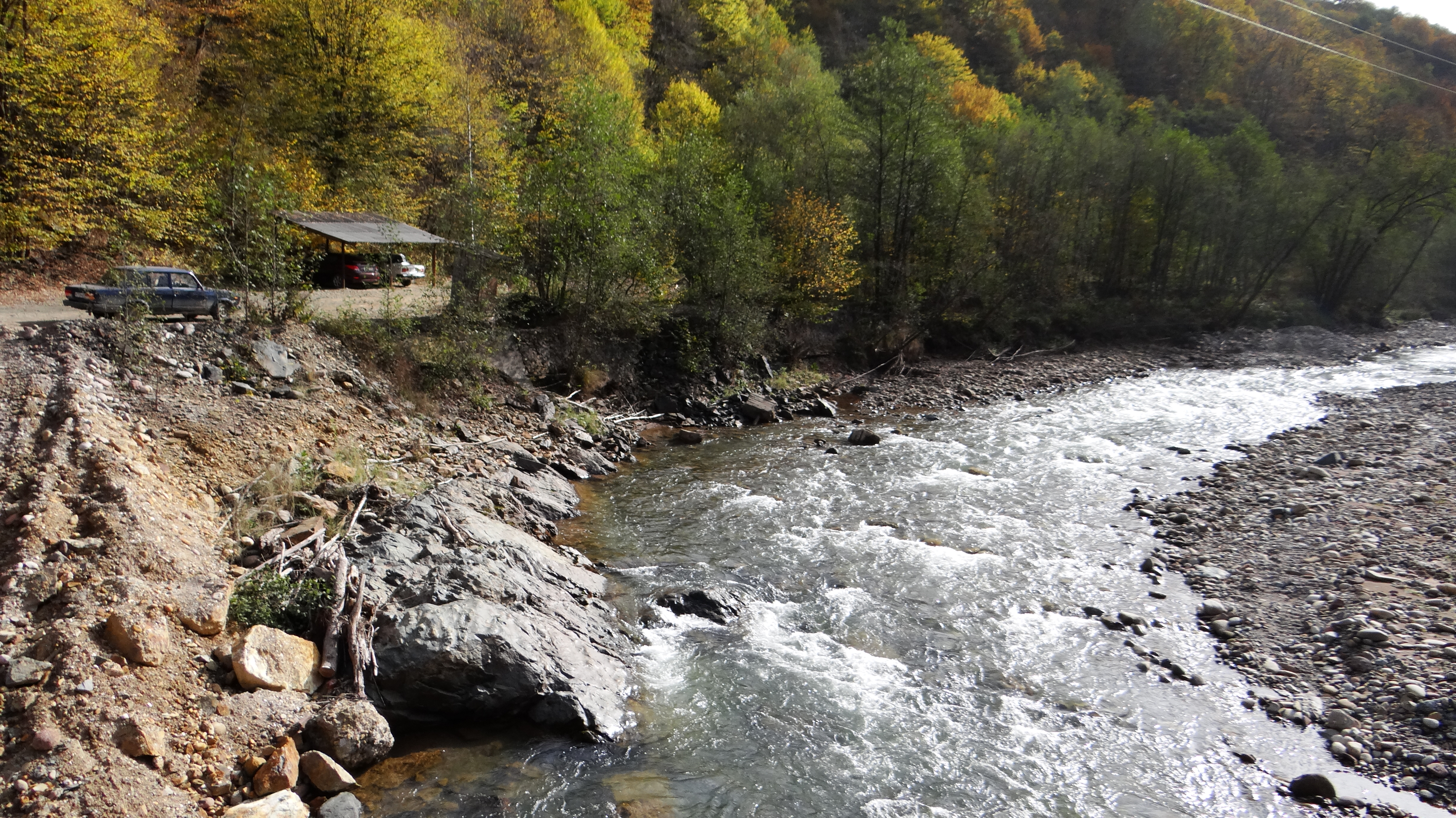 Urupsky District, Karachay-Cherkessia, Russia